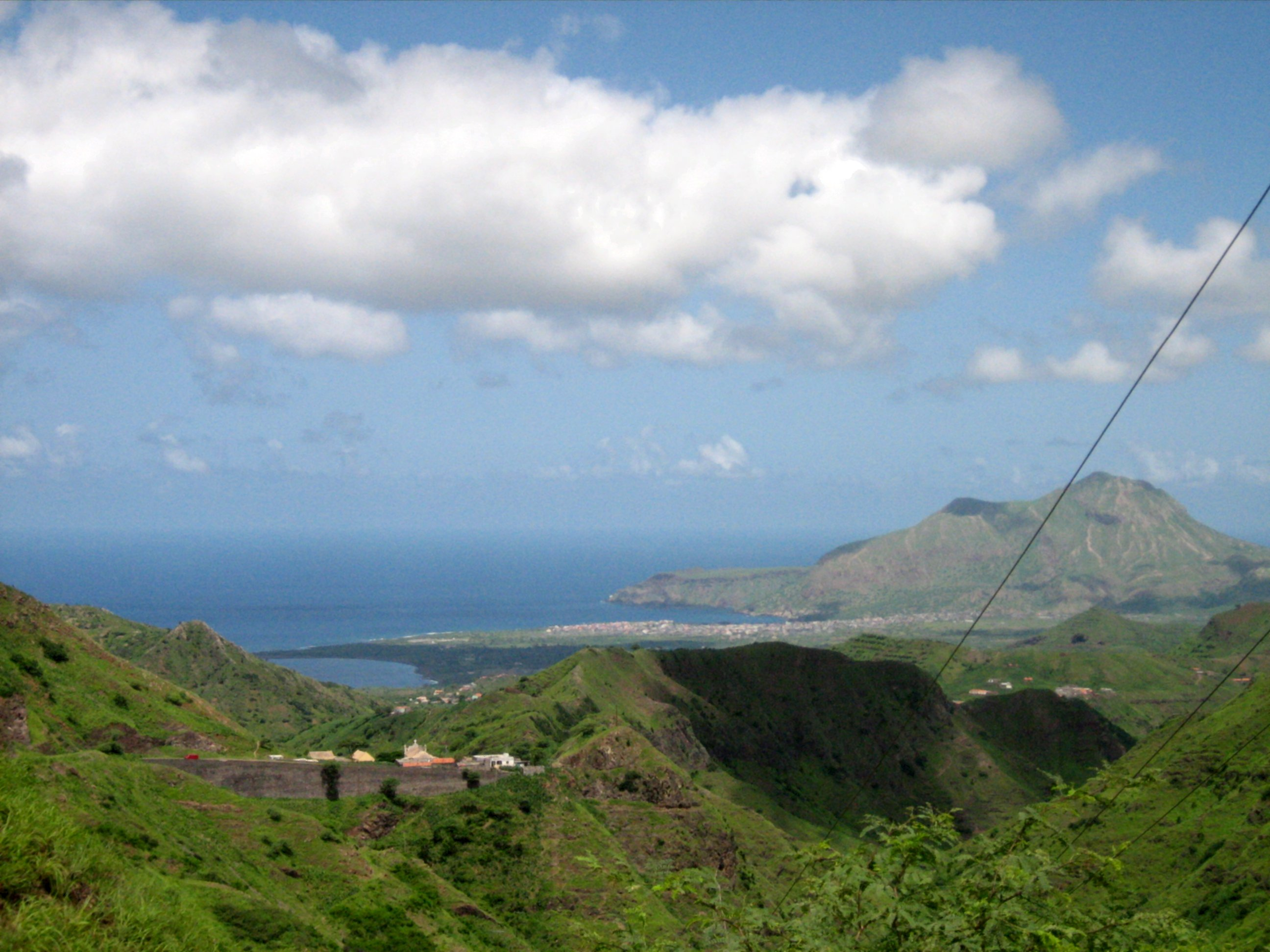 Northwest coast of Santiago, Cape Verde. In the background the city of Tarrafal is located.